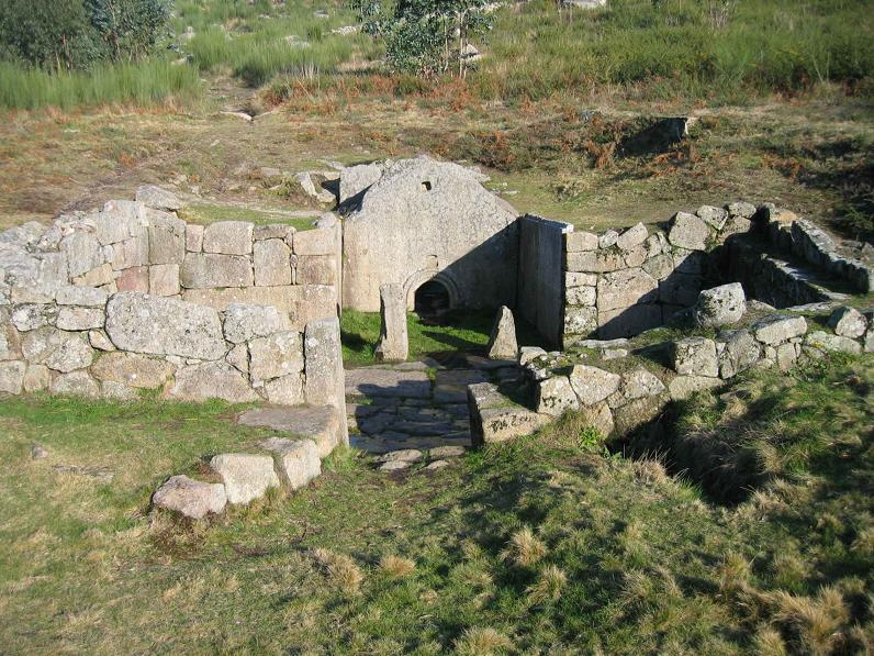 Hill Fort - Citânia of Sanfins - Paços de Ferreira - Portugal